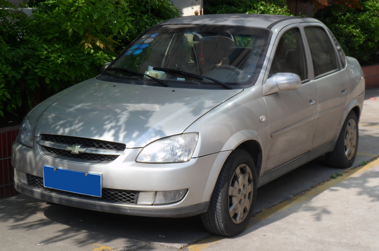 Chevrolet Sail photographed in Shanghai, China.